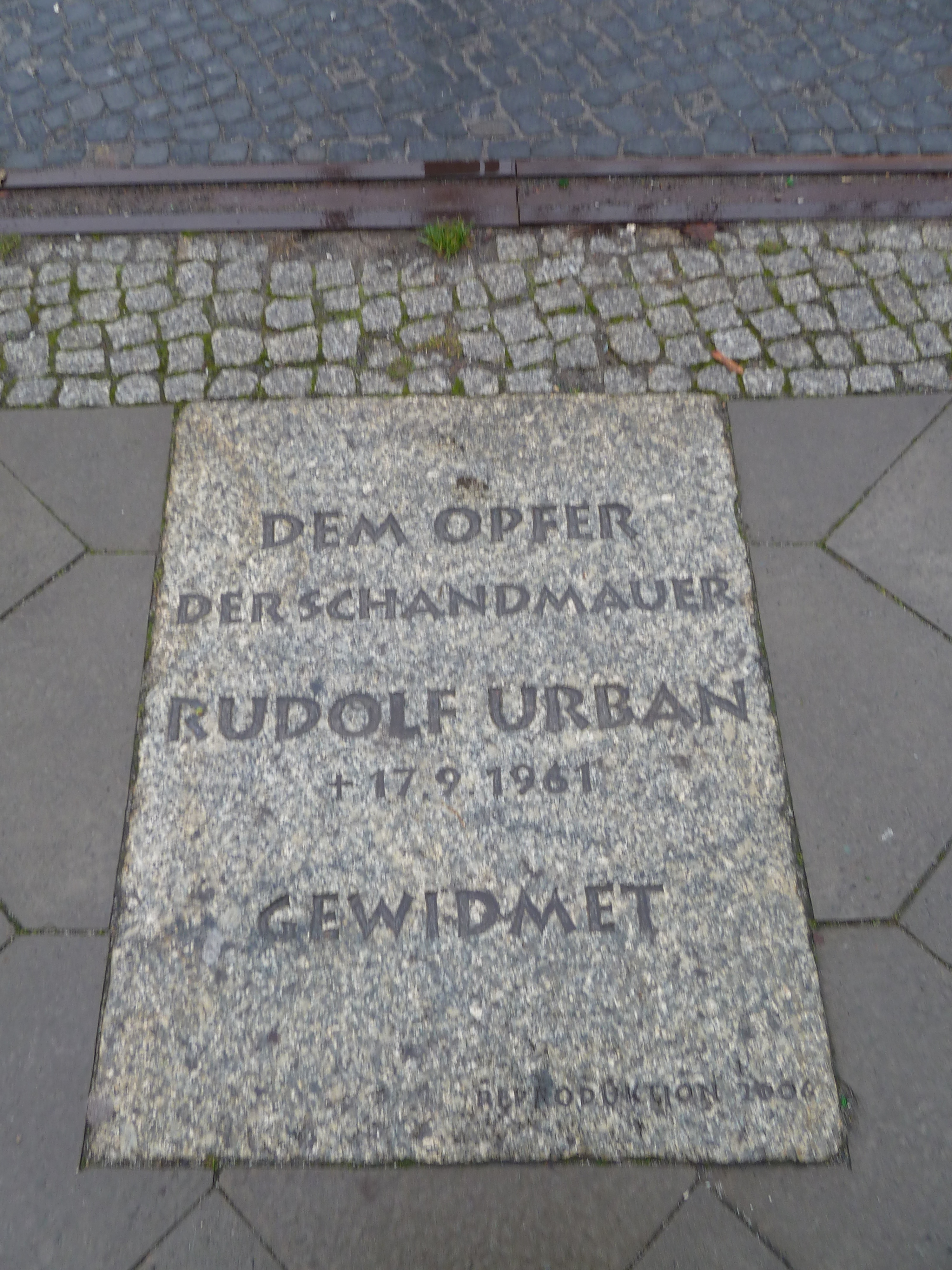 Rudolf Urban memorial at Bernauer Strasse 1, Berlin (street tablet)